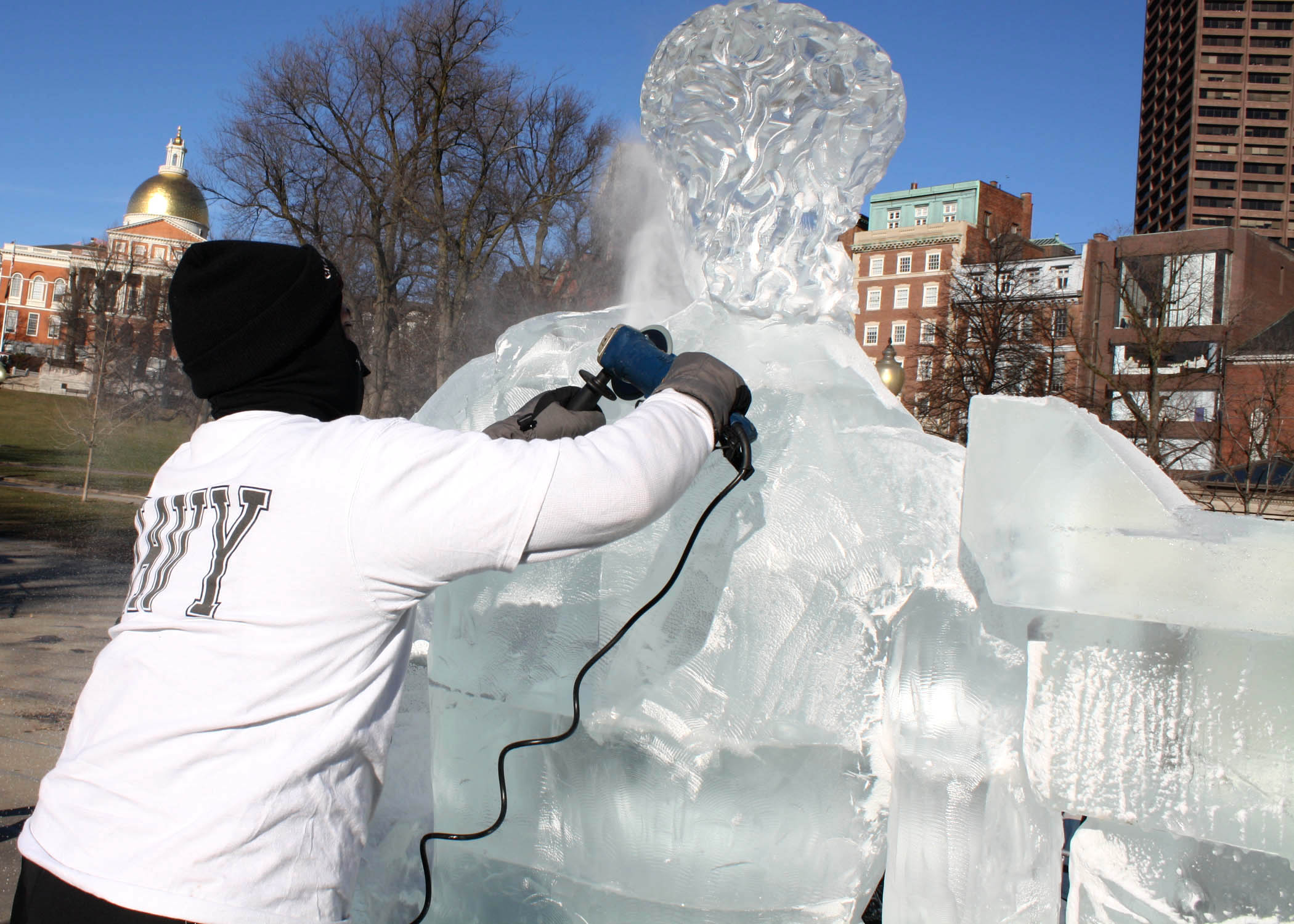 BOSTON (Dec. 31, 2009) Chef and ice sculptor Anthony Pacitto, from Wakefield, Mass., prepares an ice sculpture for Boston's First Night celebration. Pacitto will be laying down his grinder Dec. 20 as he ships off to Basic Training for the Navy in Great Lakes, Ill. (U.S. Navy photo by Chief Petty Officer Paul Delaughter/Released)